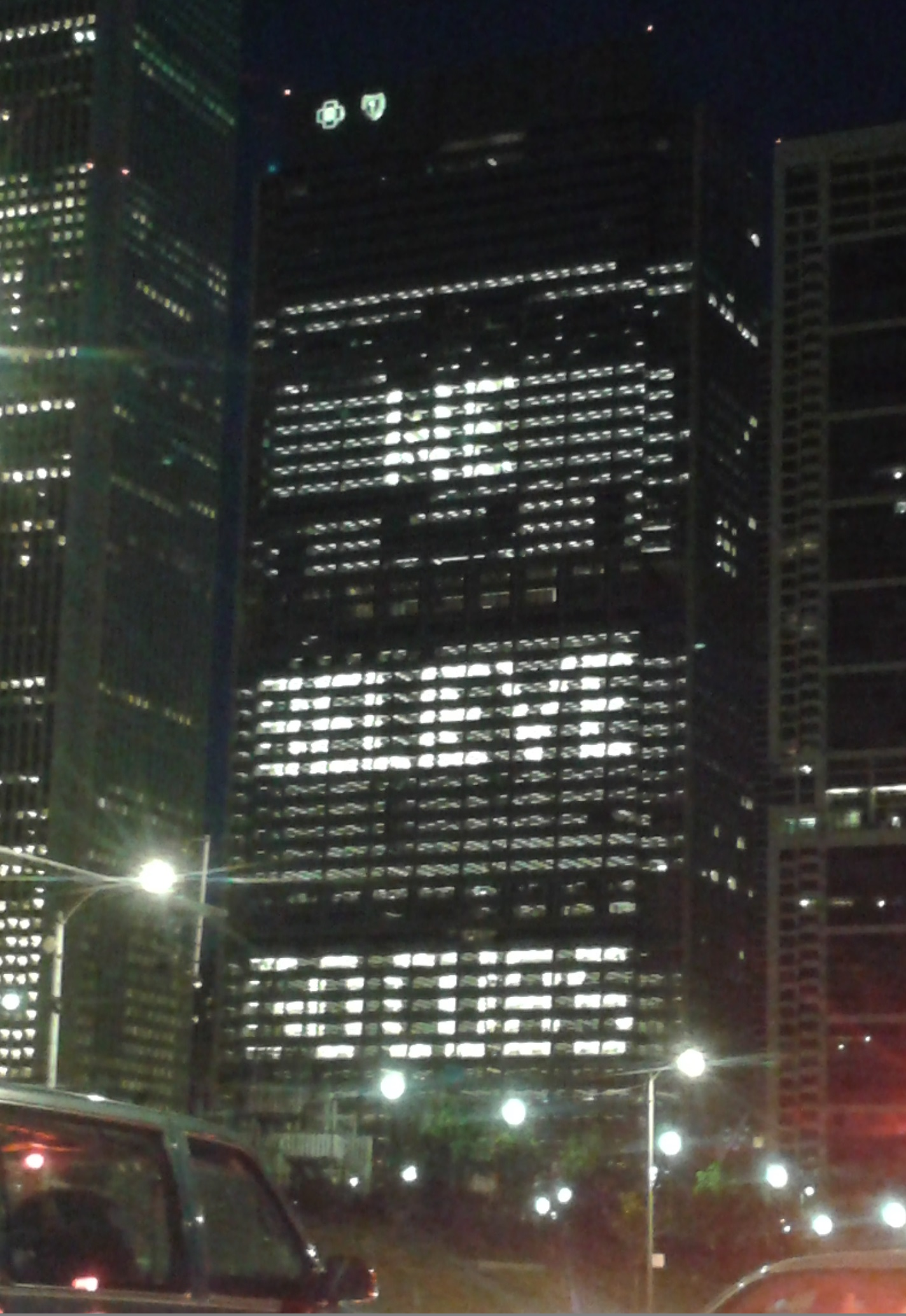 Image of the Blue Cross Blue Shield Tower used as a billboard